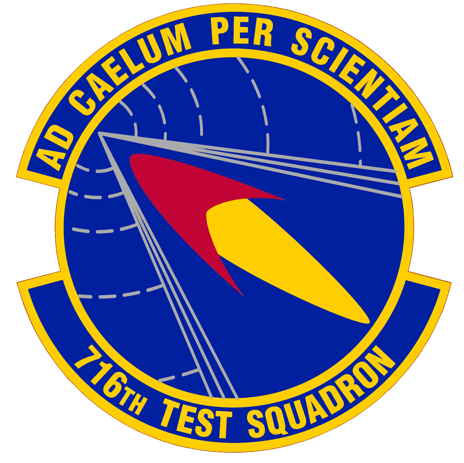 716th Test Squadron emblem. Originally approved for the 6516th Test Squadron on 24 May 1990.